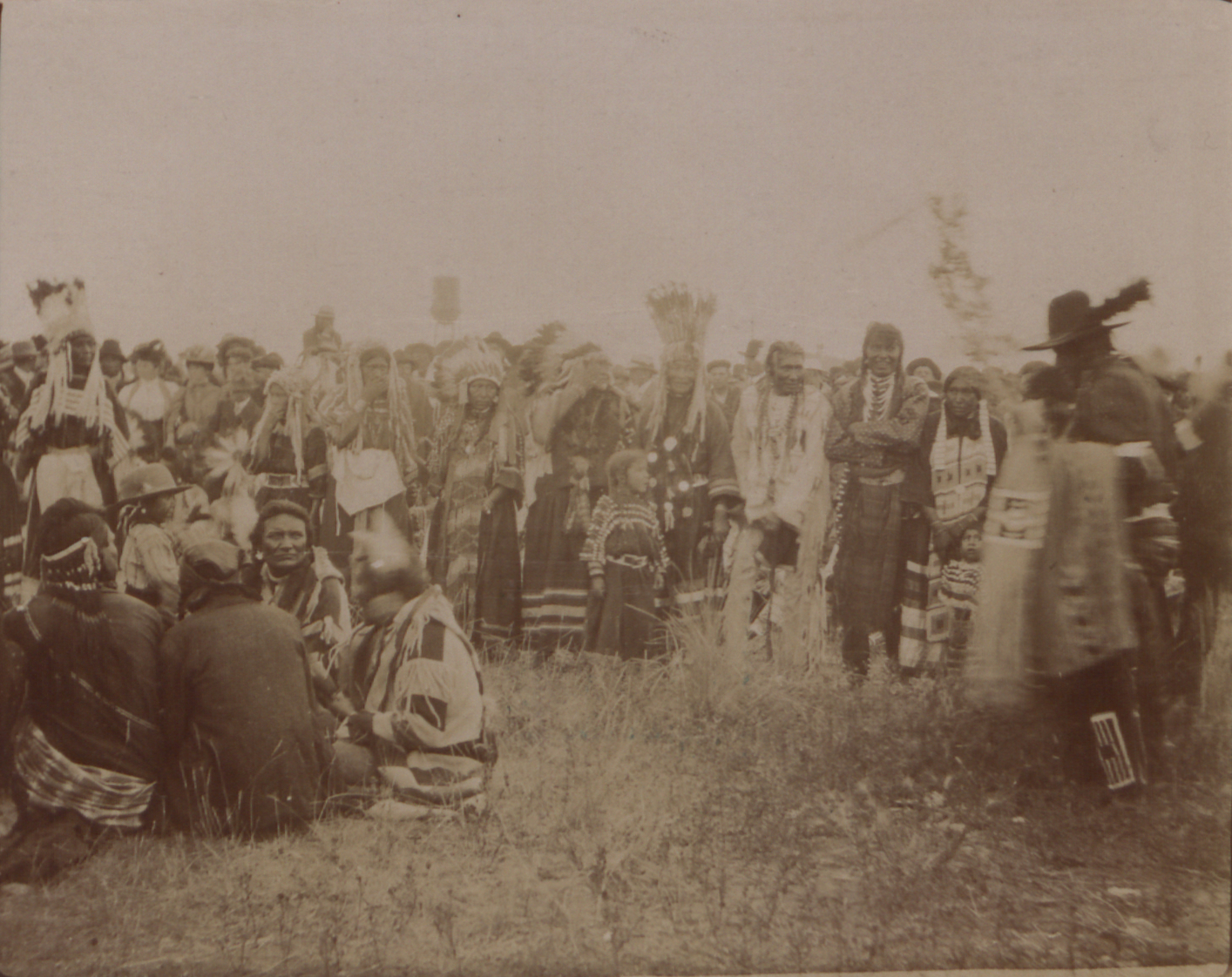 Original caption: “Scalp dance, Blackfoot Indians.”